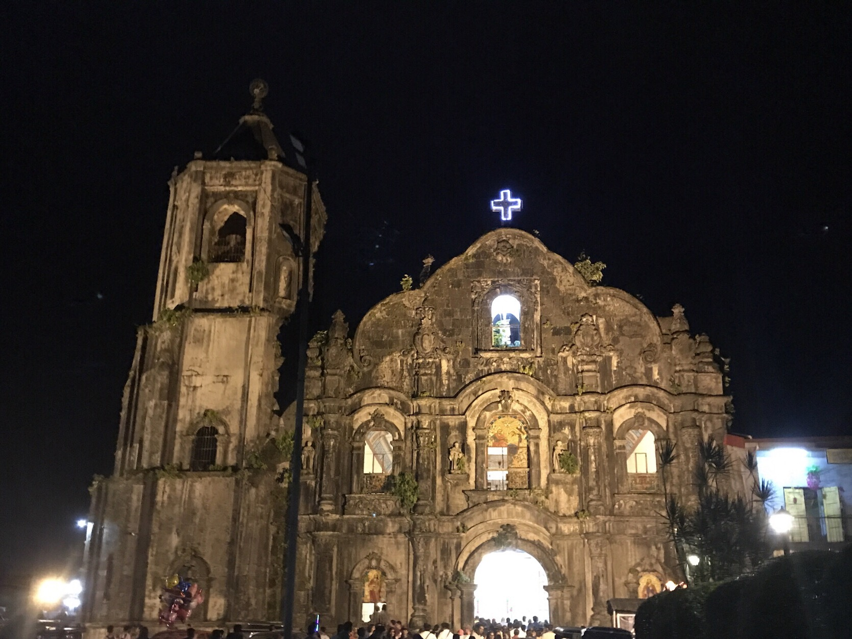 The Lucban Church on the eve of the Pahiyas Festival.